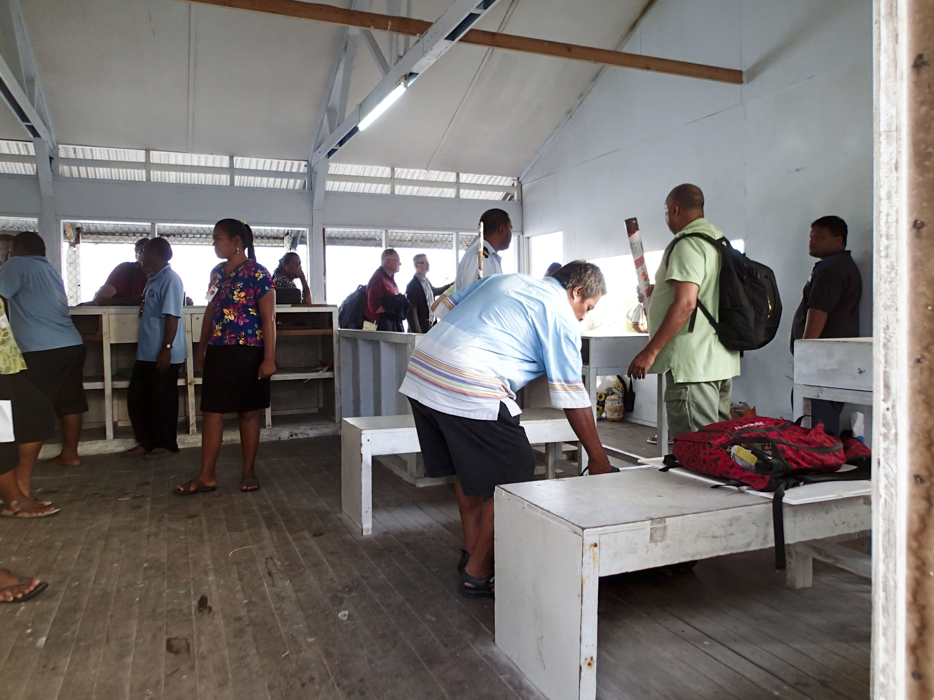 Cassidy International Airport Kiritimati, Kiribati. Customs and Immigration hall.